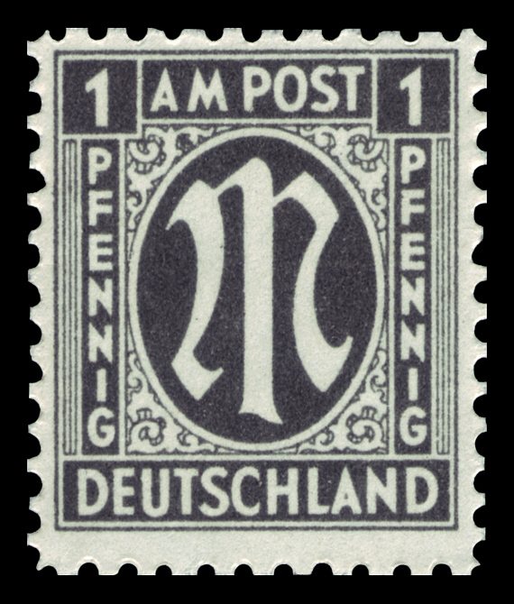 Definitive stamp series "M" Graphics by Roach Ausgabepreis: 1 Pfennig First Day of Issue / Erstausgabetag: 3. Oktober 1945 Michel-Katalog-Nr: 16 (Alliierte Besetzung - Bizone)